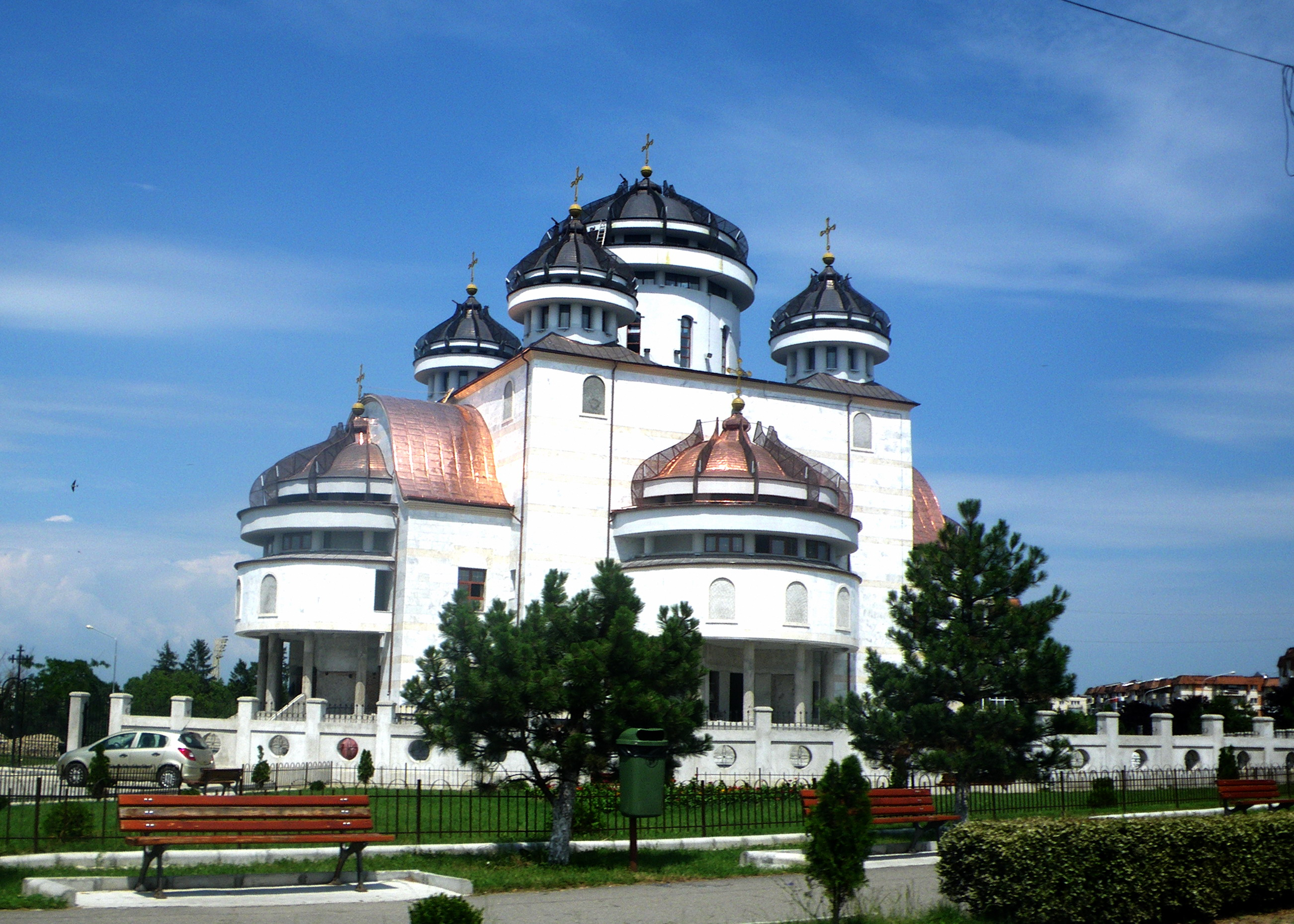 Mioveni- Arges County Romania Church